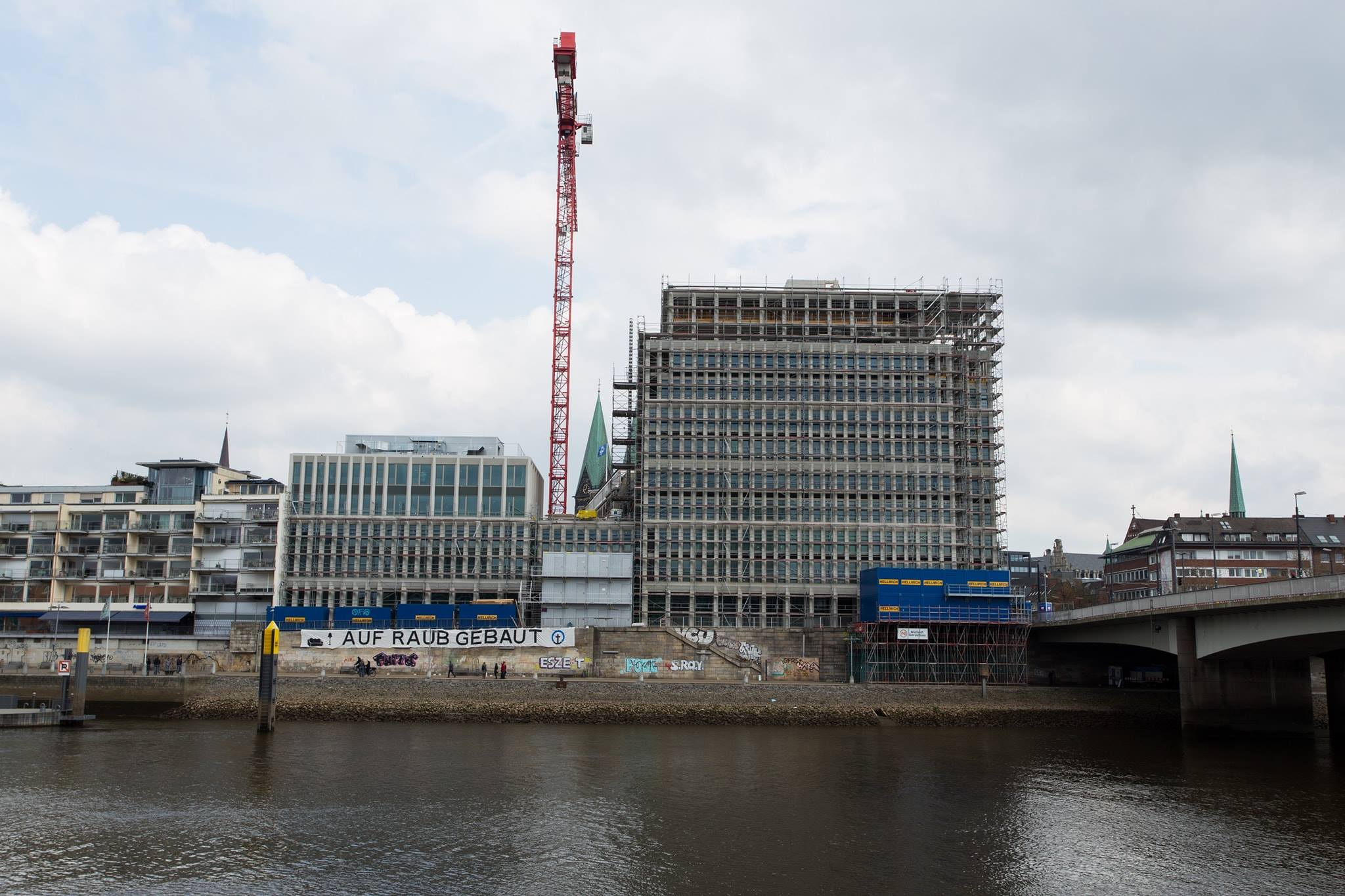 Protest against Kühne + Nagel's refusal to assume its historical responsibility in the WW2 at the new company HQ in Bremen, Slogan: "Built on robbery", April 2019